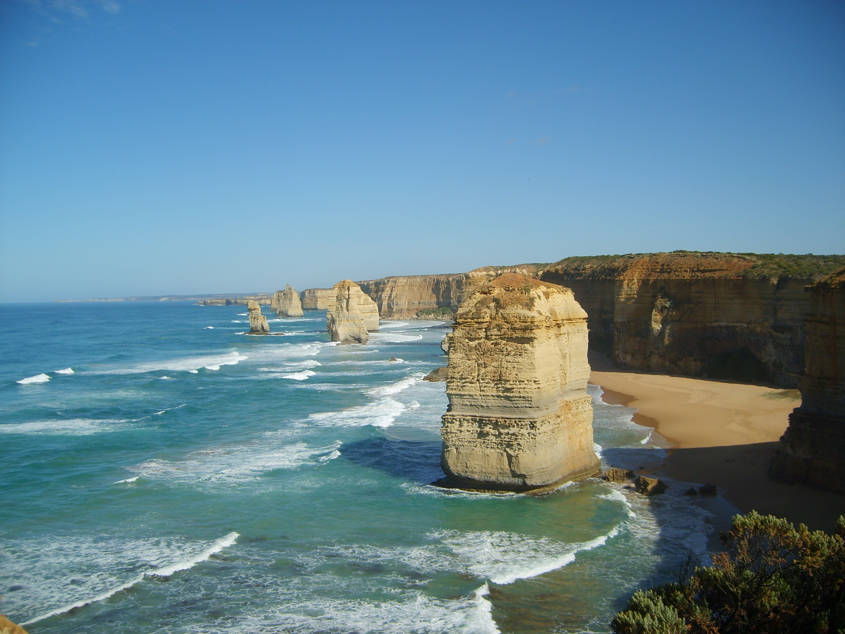 Picture of the Twelve Apostles, Victoria, Australia